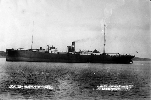 A/S Hektor's ship "Ronald" (1920), the world's first purpose built whaling factory. 1940 renamed Mafuta. 1948 renamed Jarama